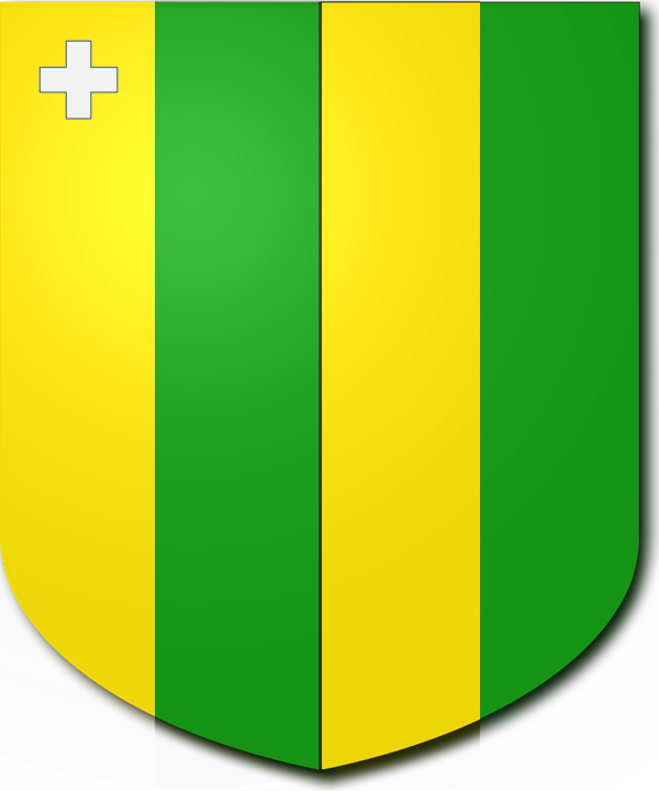 Martinazzo family shield